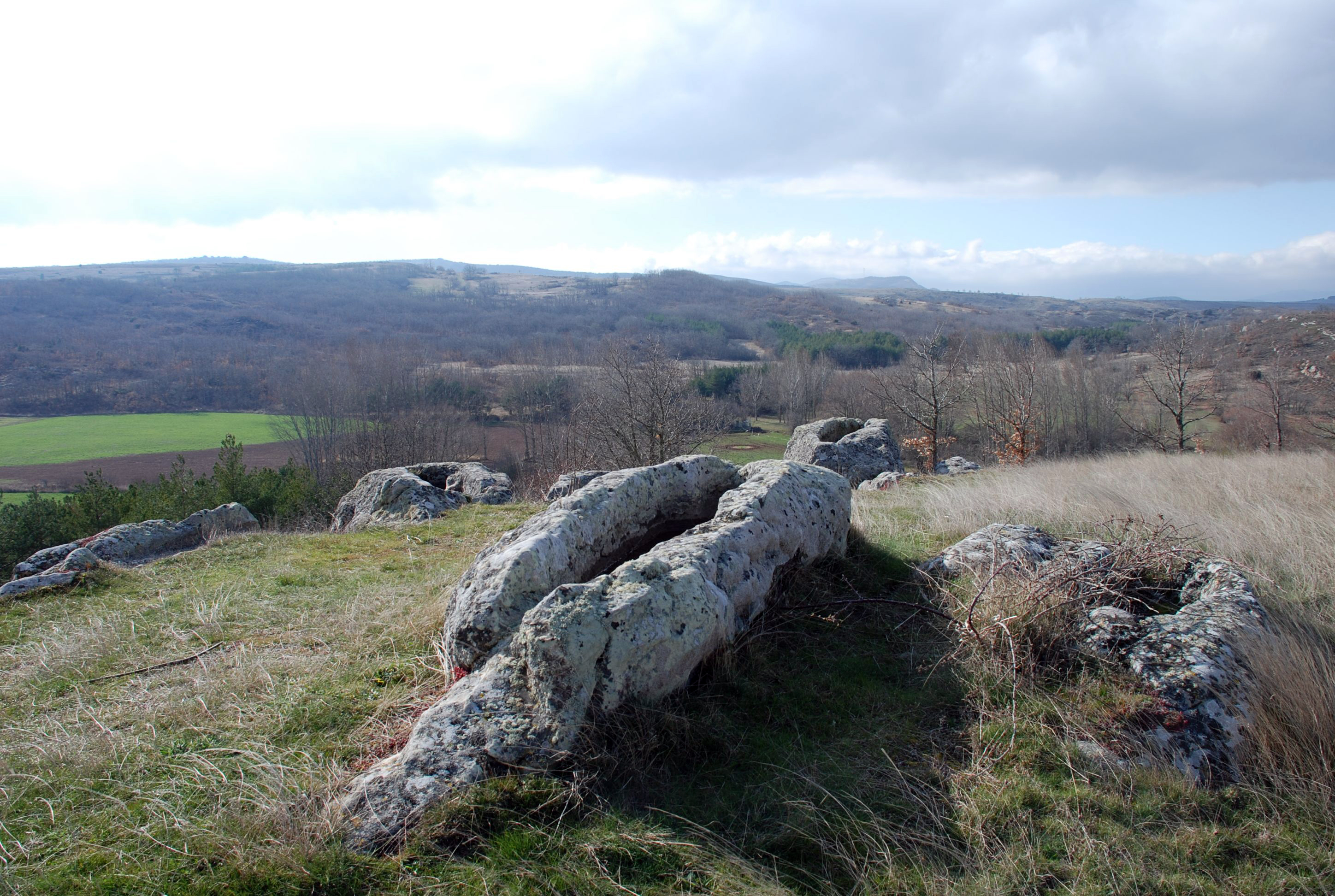 High medieval necropolis of Saint Martin, Quintanilla de la Berzosa (Palencia, Castile and León).